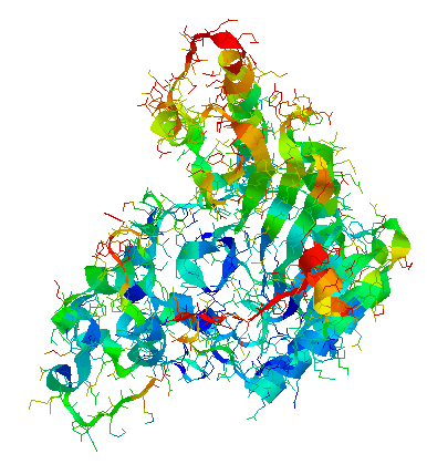 Creatine kinase (M chain) drawn from in Rasmol and Windows Paint